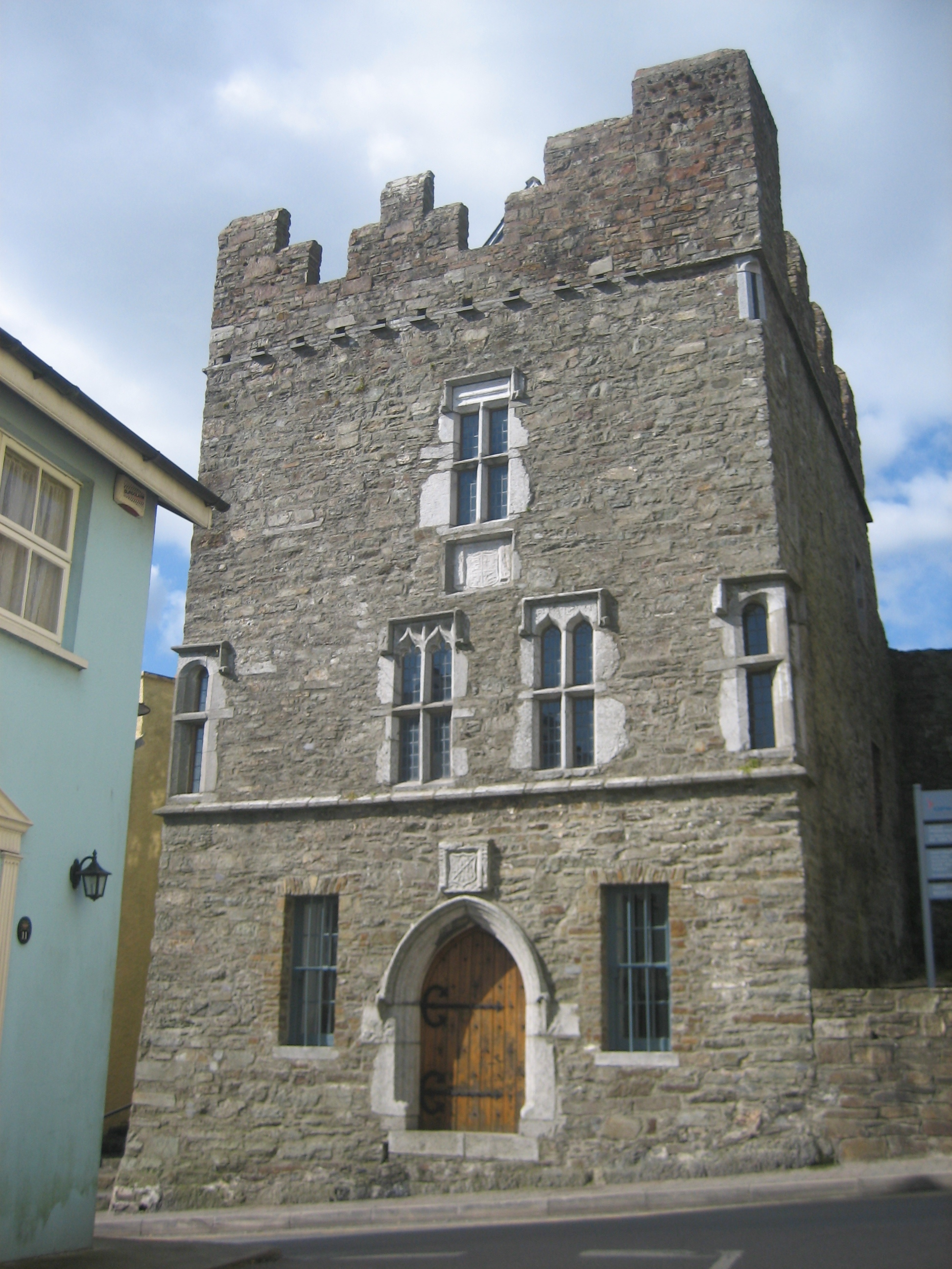 Kinsale, Desmond Castle. Wikidata has entry Q3752910 with data related to this item.